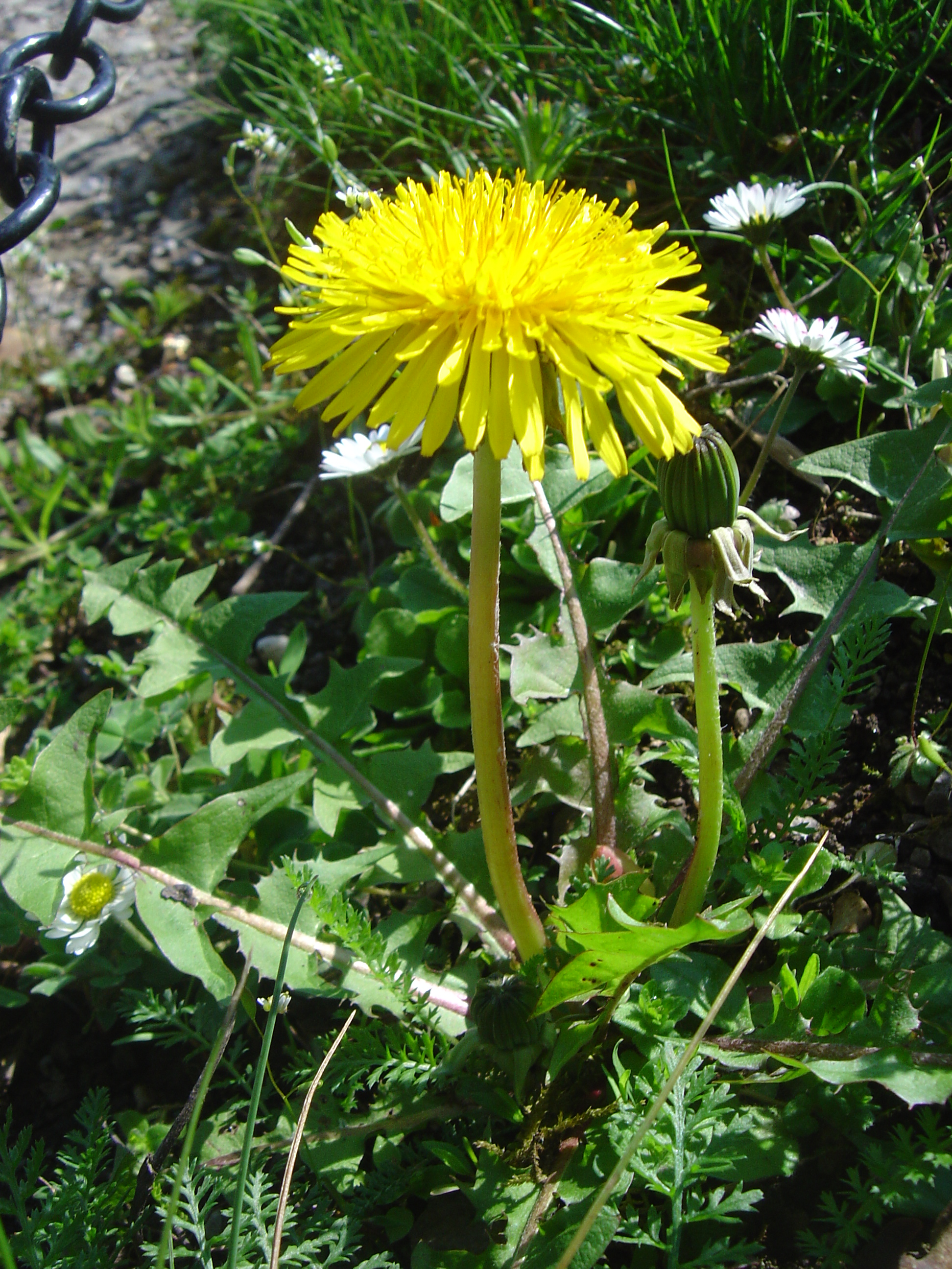 Dandelion